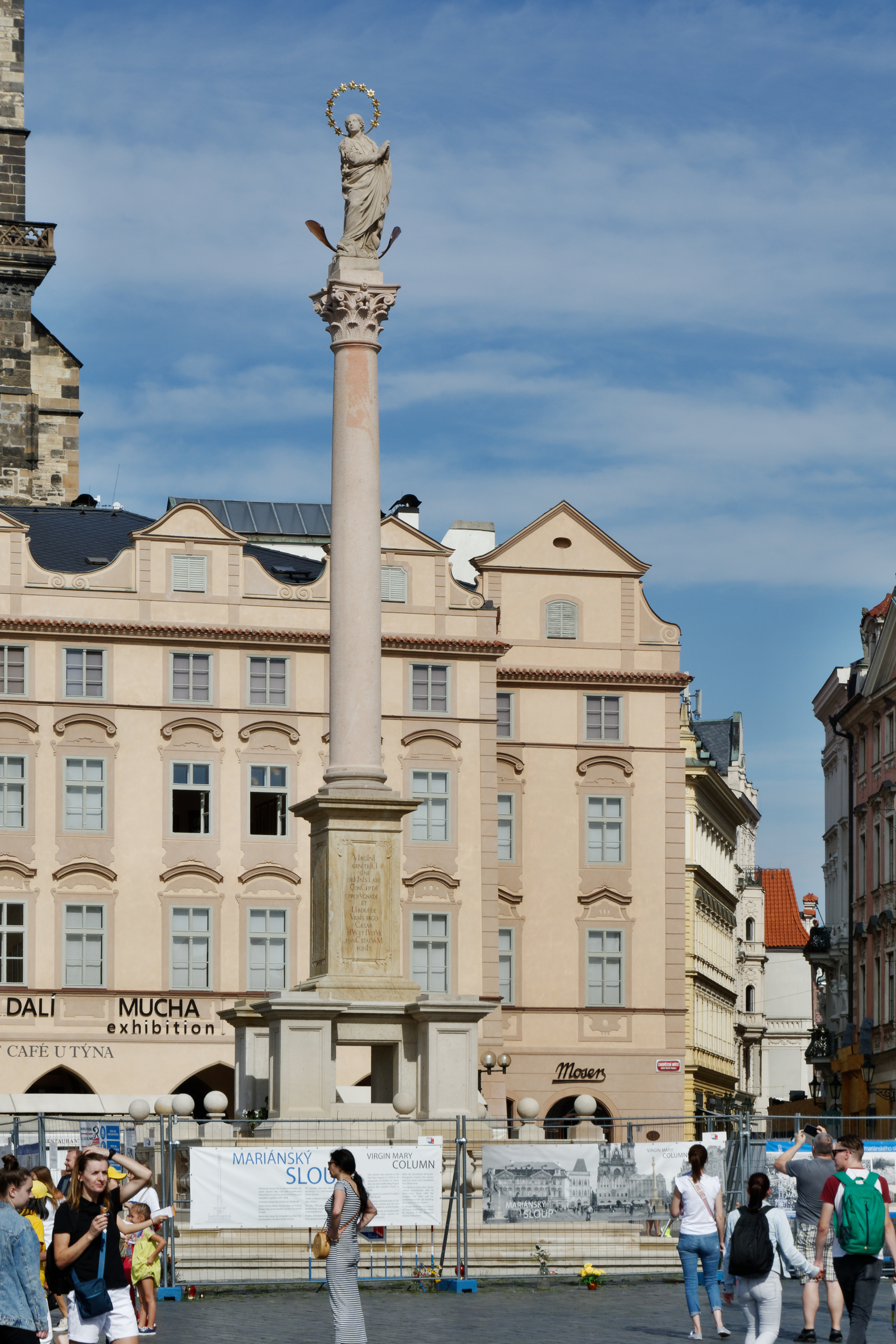 Replica of the Virgin Mary column, Old Town Square, Prague